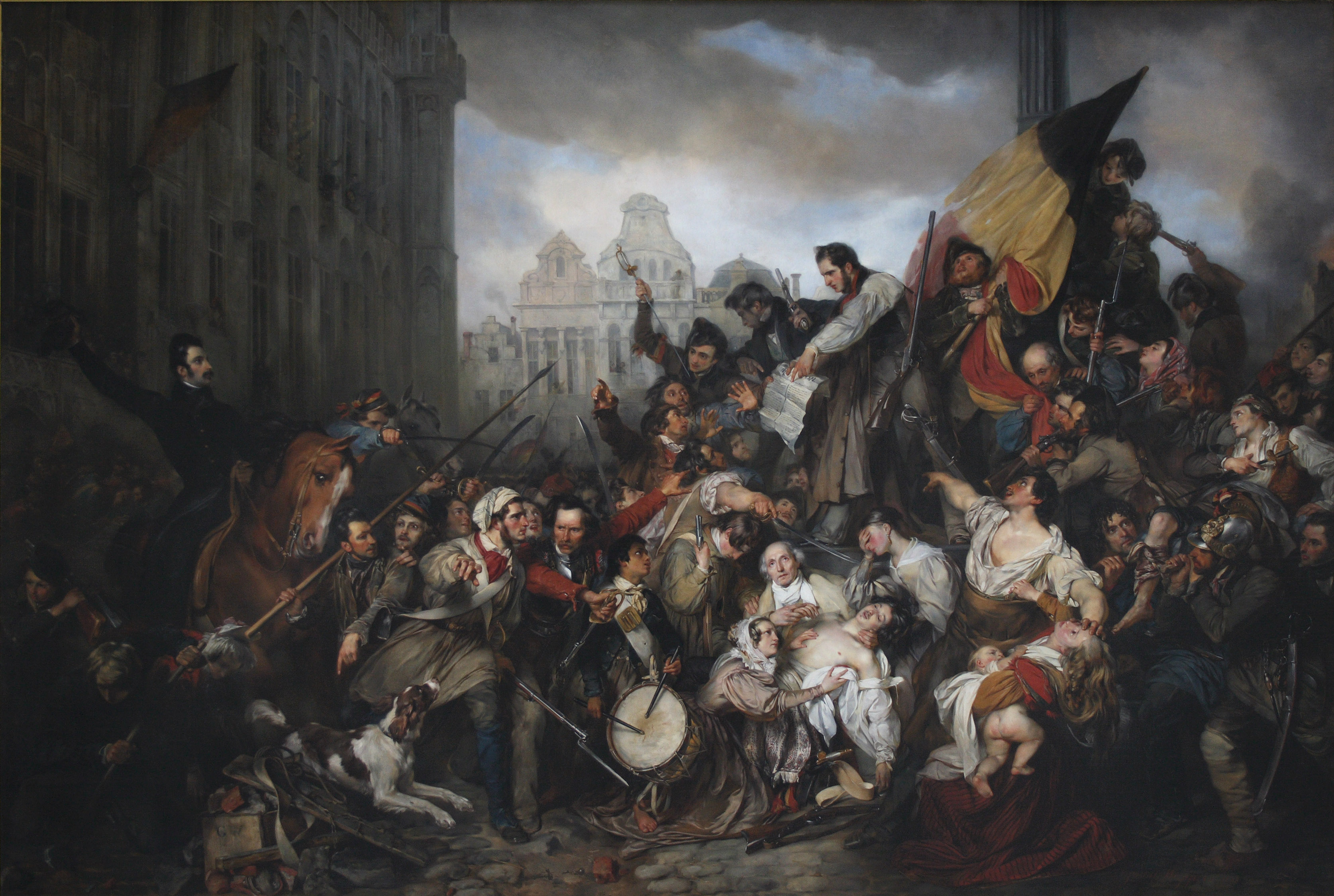 Men and women form a mound around a post in the streets of a city on the right of this painting. A tattered tricolour flag (of black, yellow, and red) is at the top, and beside this flag, a man stands with a paper in his hand. A man on his horse (on the left of the painting) is among the crowd at the base of the mound, and a dog campers just in front of his steed. The crowd bears swords, pikes, and guns affixed with bayonets. One of the women at the base of the mound cradles a baby, while two women and an old man grieve over a dead youth in their arms. The blue sky is overcast with grey smoke.